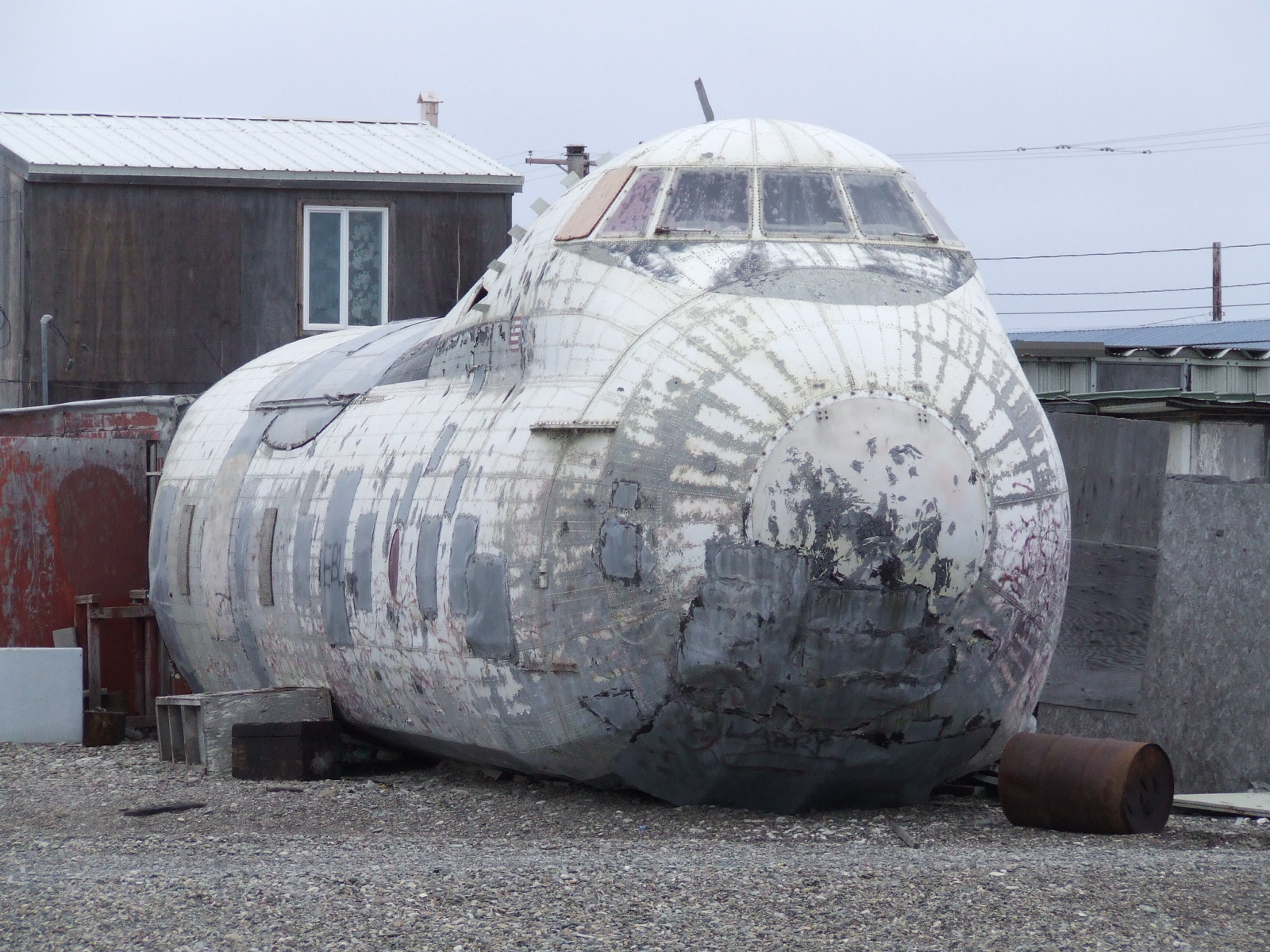 An Armstrong-Whitworth Argosy (UK) cargo aircraft converted into a living residence located in Point Hope, Alaska